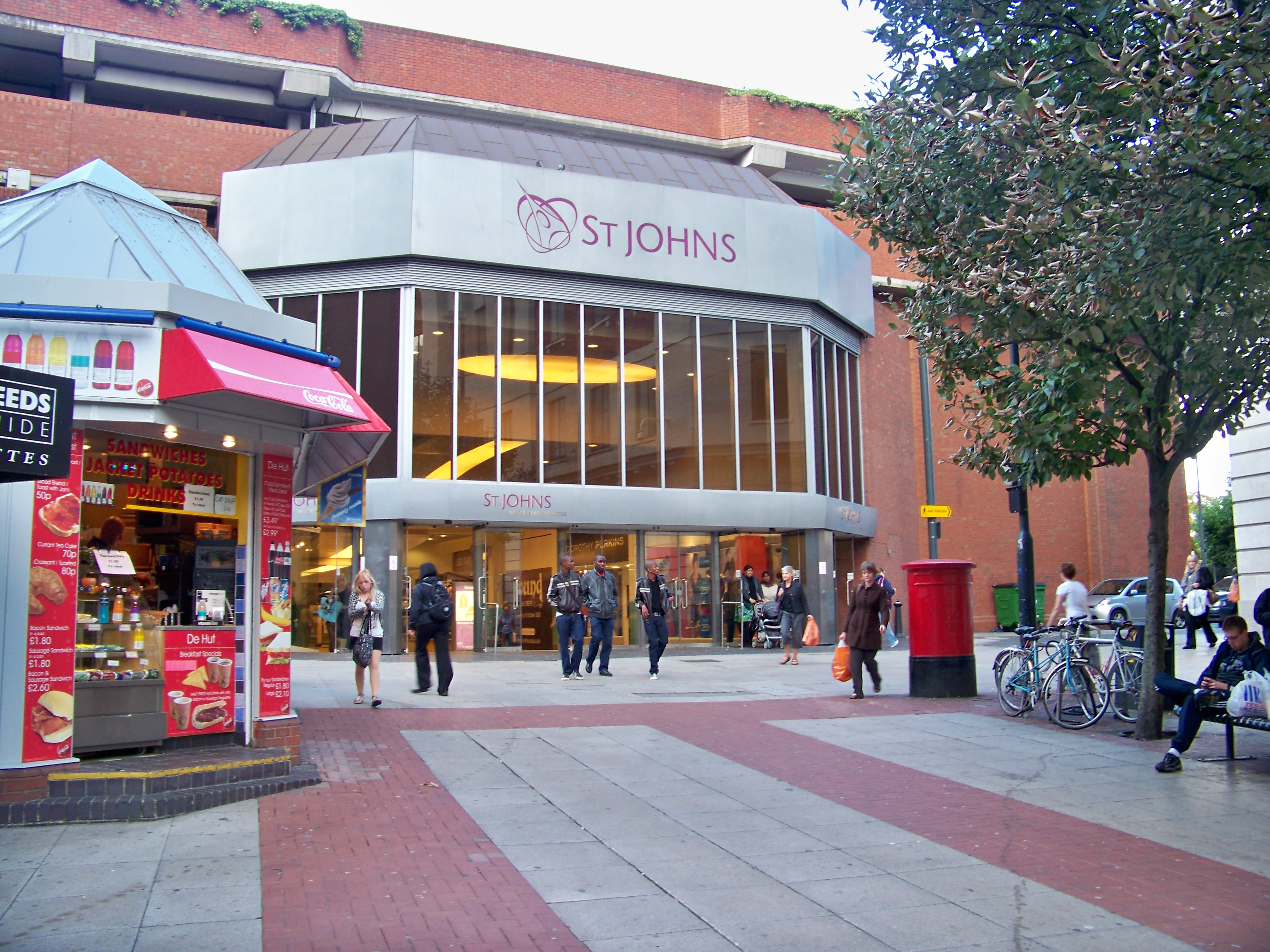 The entrance to the St John's Shopping Centre, Leeds from Dortmund Squre. Taken on the afternoon of Tuesday 15th September 2009.